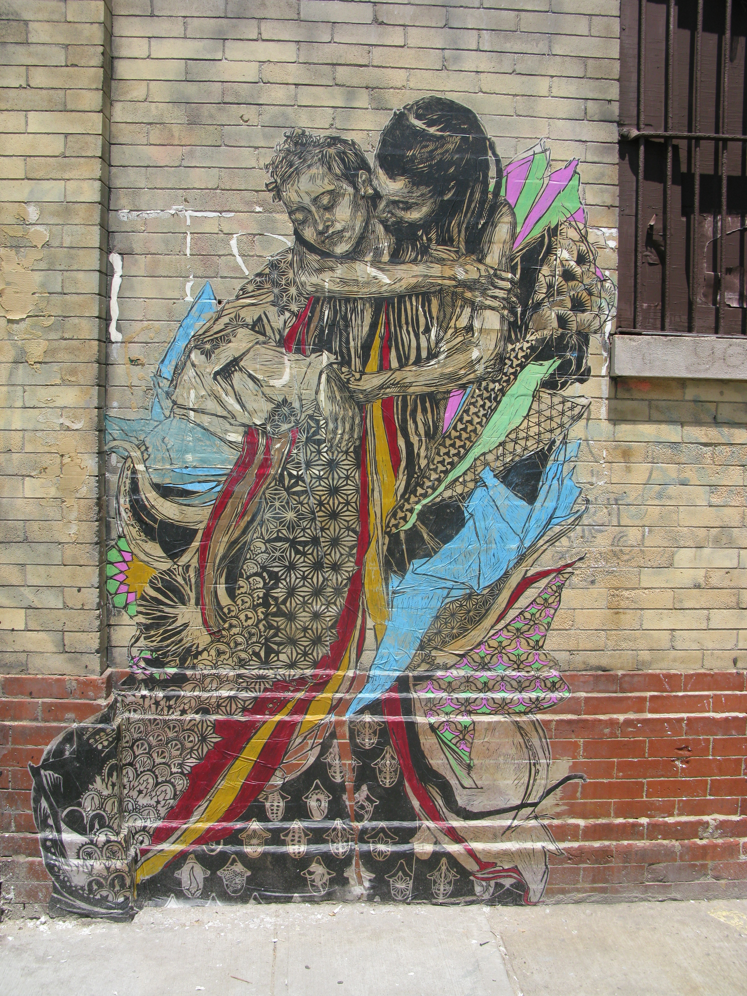 Wheat paste graffiti